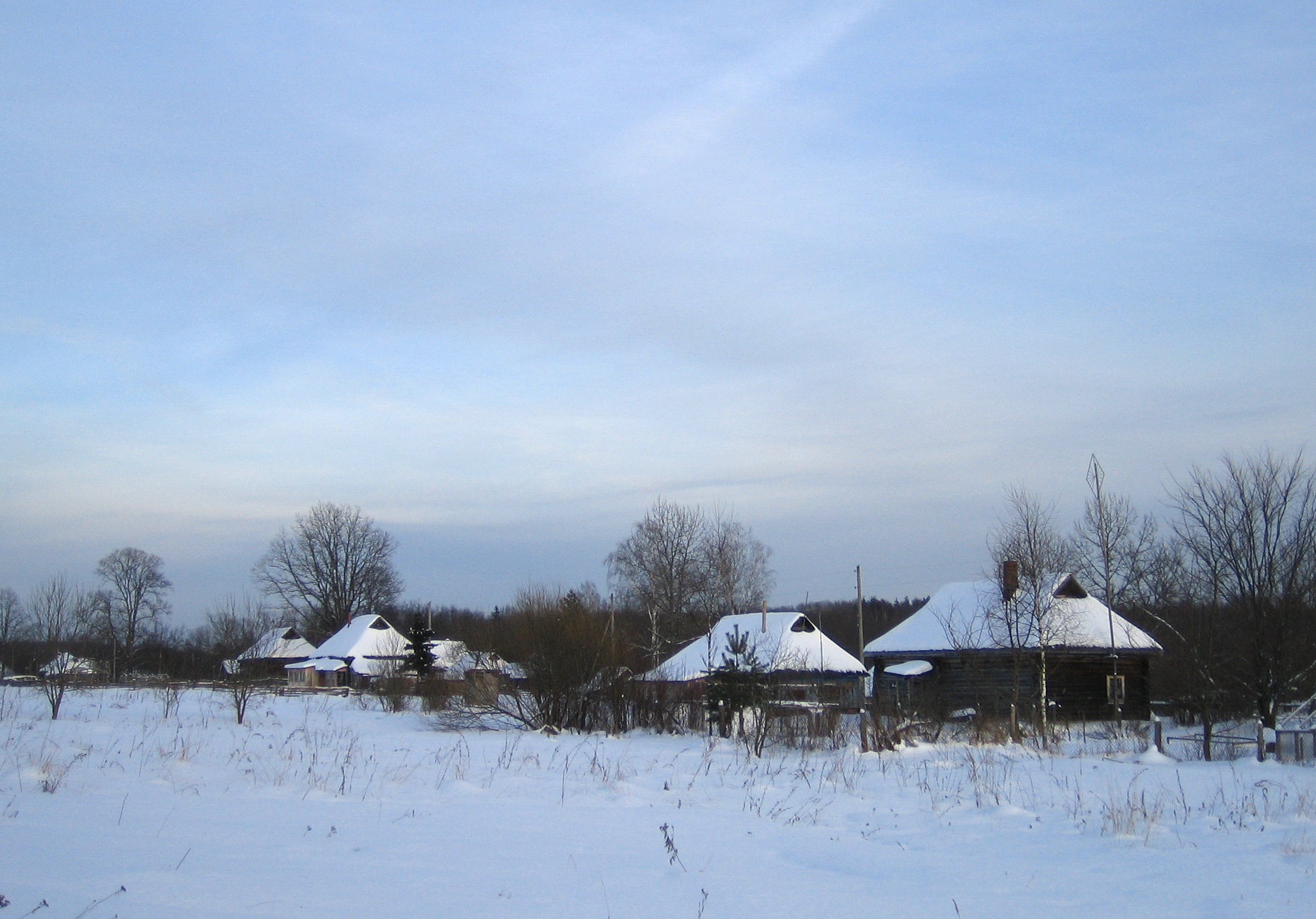 Sorokino (Ugra region)